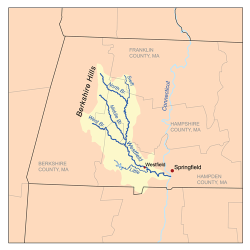 This is a map of the Westfield River Watershed. I, Karl Musser, created it based on USGS data.